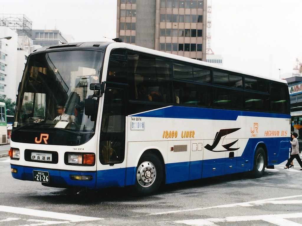 JR Tokai bus Mitsubishi Fuso Aero Queen M (P-MS729SA)for highwaybus "Irago-liner"(Tokyo stn.-Toyohashi-Iragomisaki)